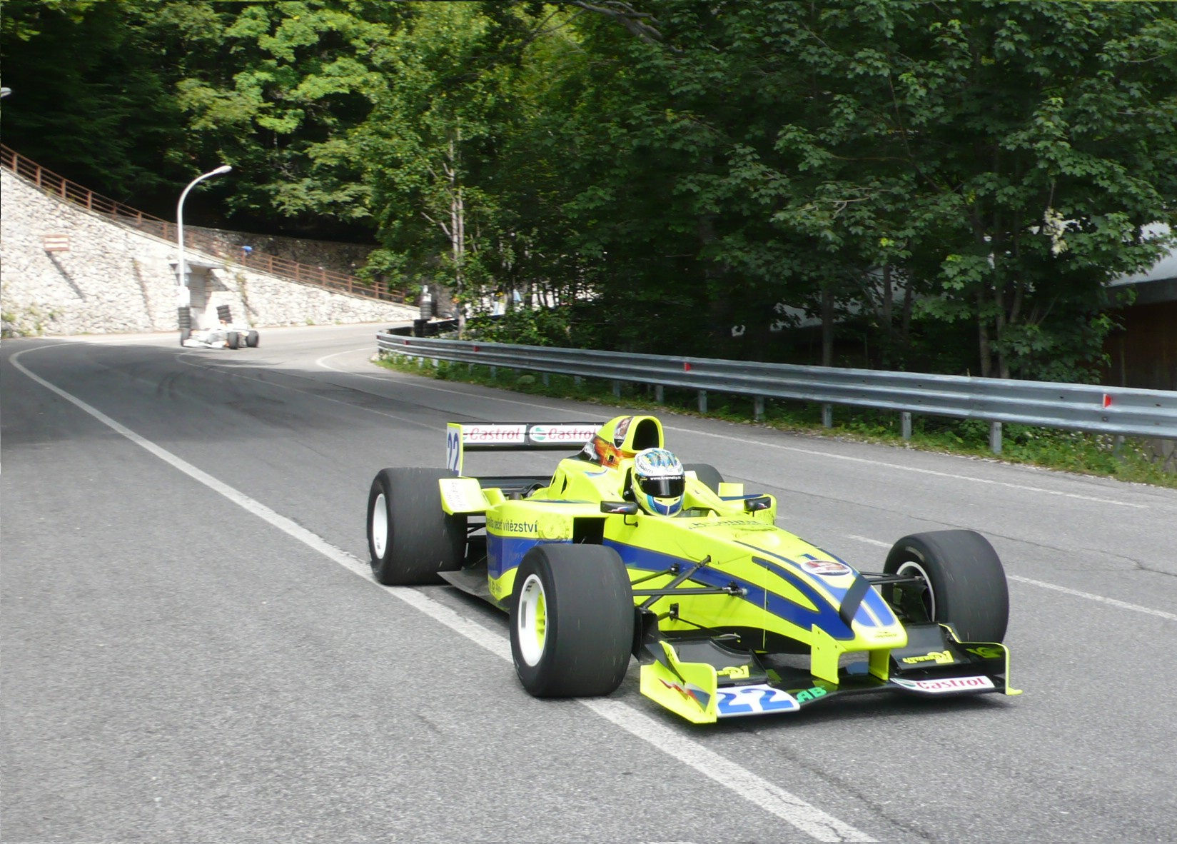 This picture shows Otakar Kramsky